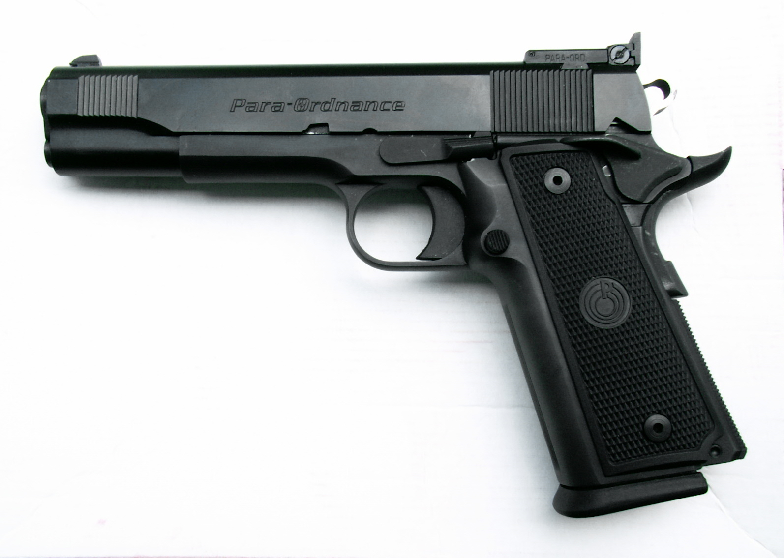 Canadian clone of the famous M1911 in calibre .40 S&W Author:myself, 24.6.2006, No rights reserved